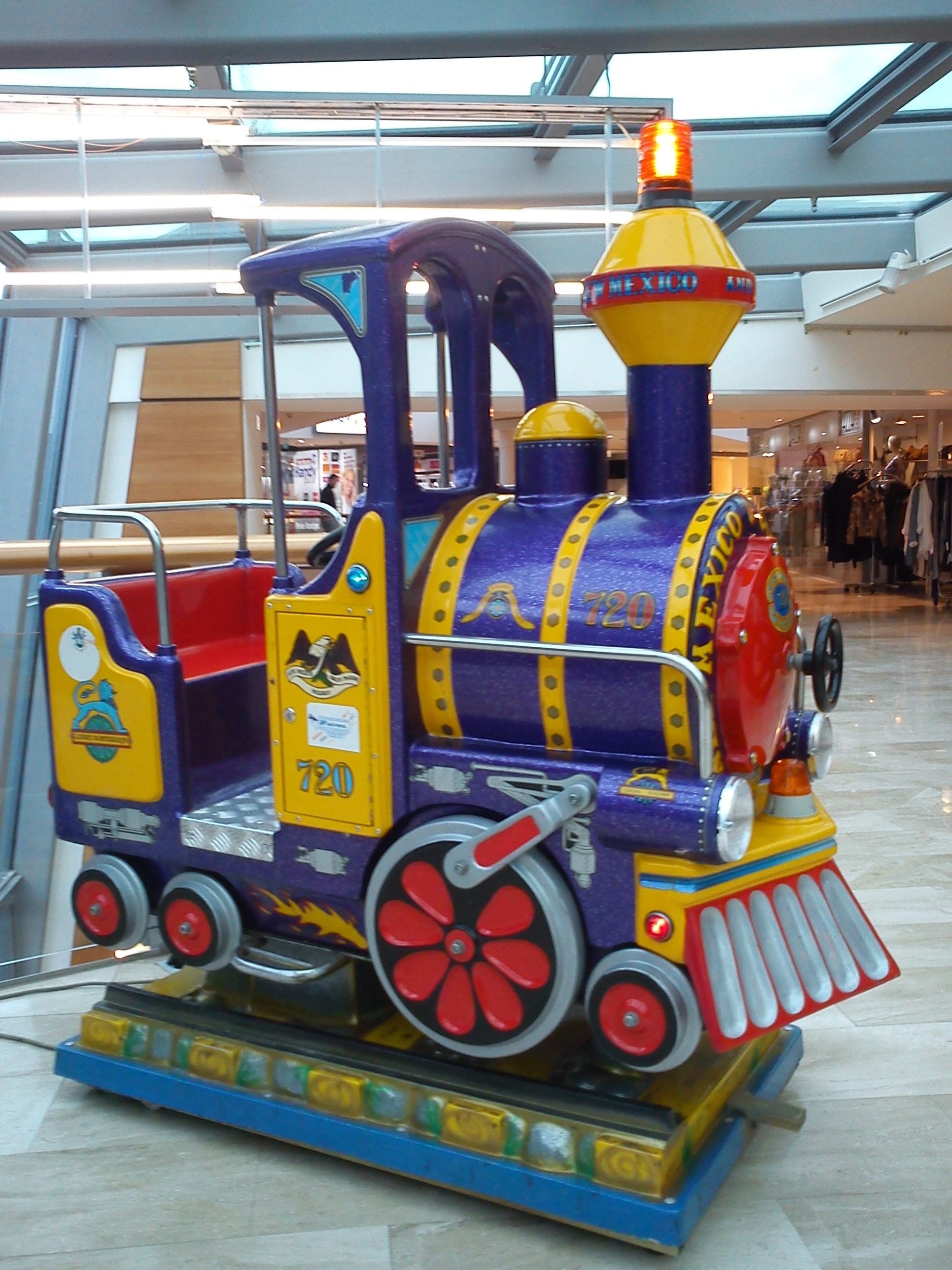 A "kiddy ride"